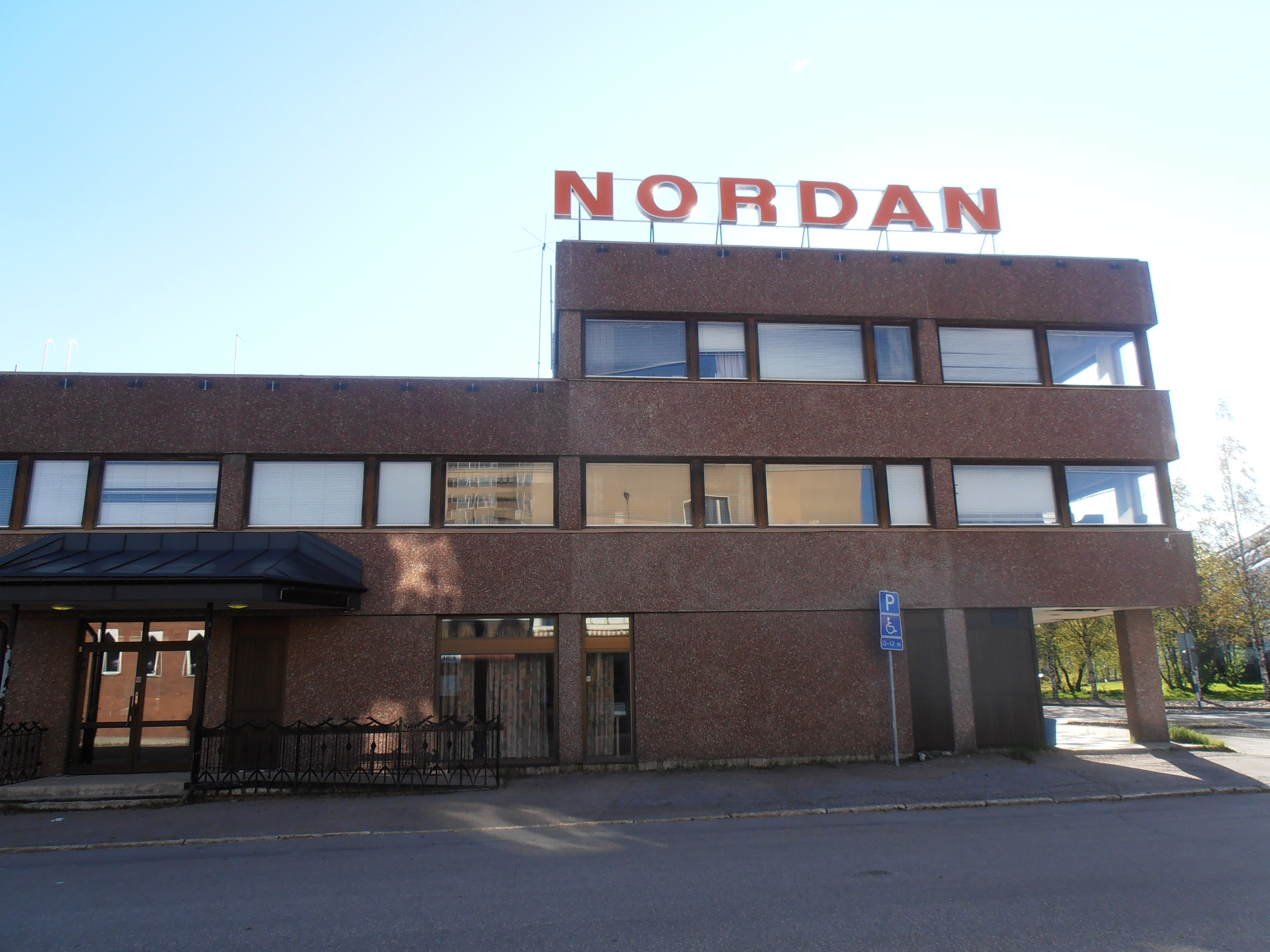 Nordan at Järnvägsgatan-Österlånggatan in Malmberget